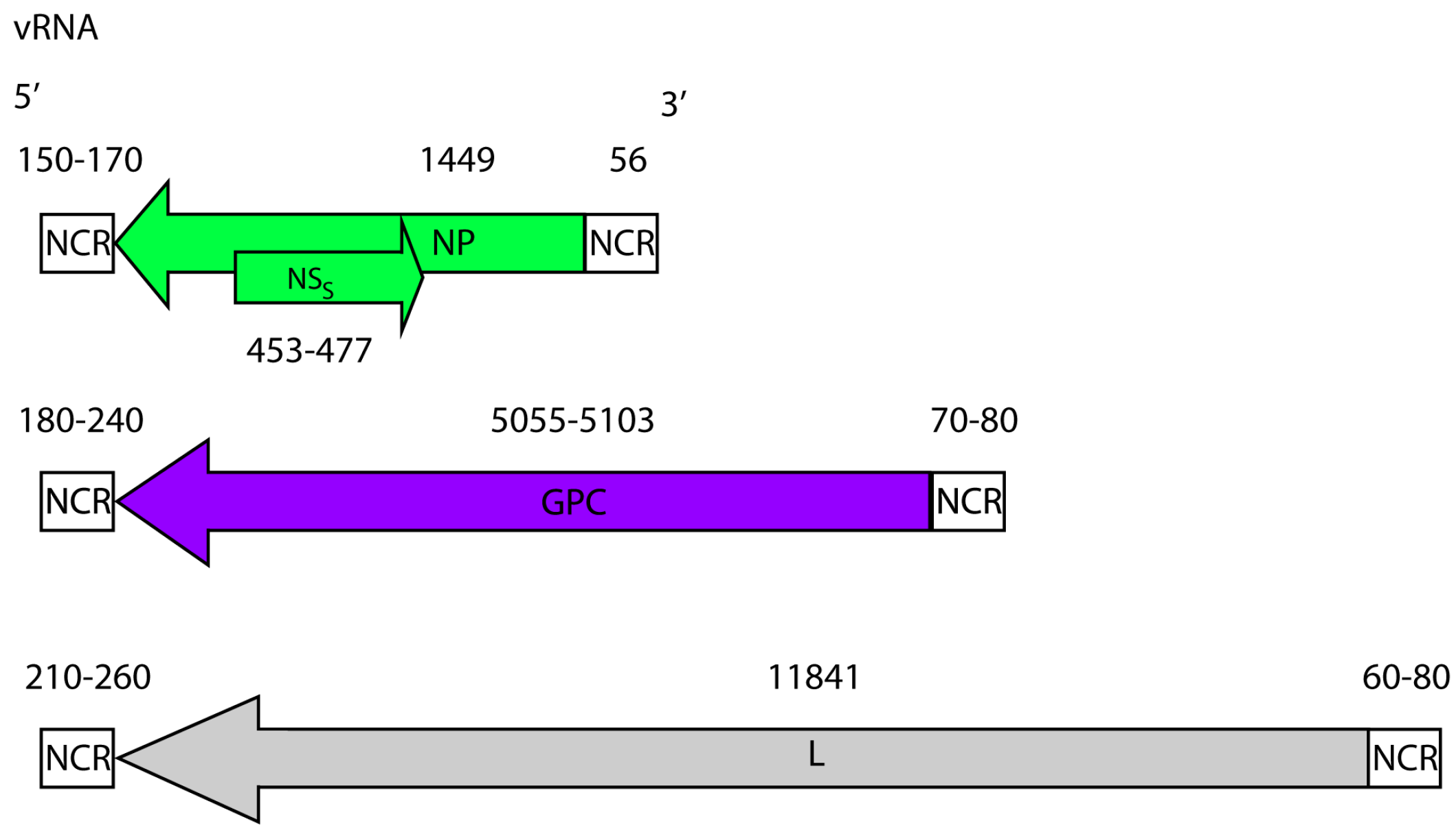 Crimean-Congo hemorrhagic fever virus (CCHFV) genome. CCHFV possess a tri-segmented negative sense RNA genome. The small (~1.6 kb), medium (~5.4 kb) and large (~12.1 kb) segments, code for the NP, the GPC and the L protein, respectively. The small segment also codes for a non-structural S protein (NSS) in the positive sense. The coding regions are flanked by non-coding regions (NCRs). The nucleotide lengths of the regions (both coding and non-coding) are displayed and based on full-length sequences available in GenBank.